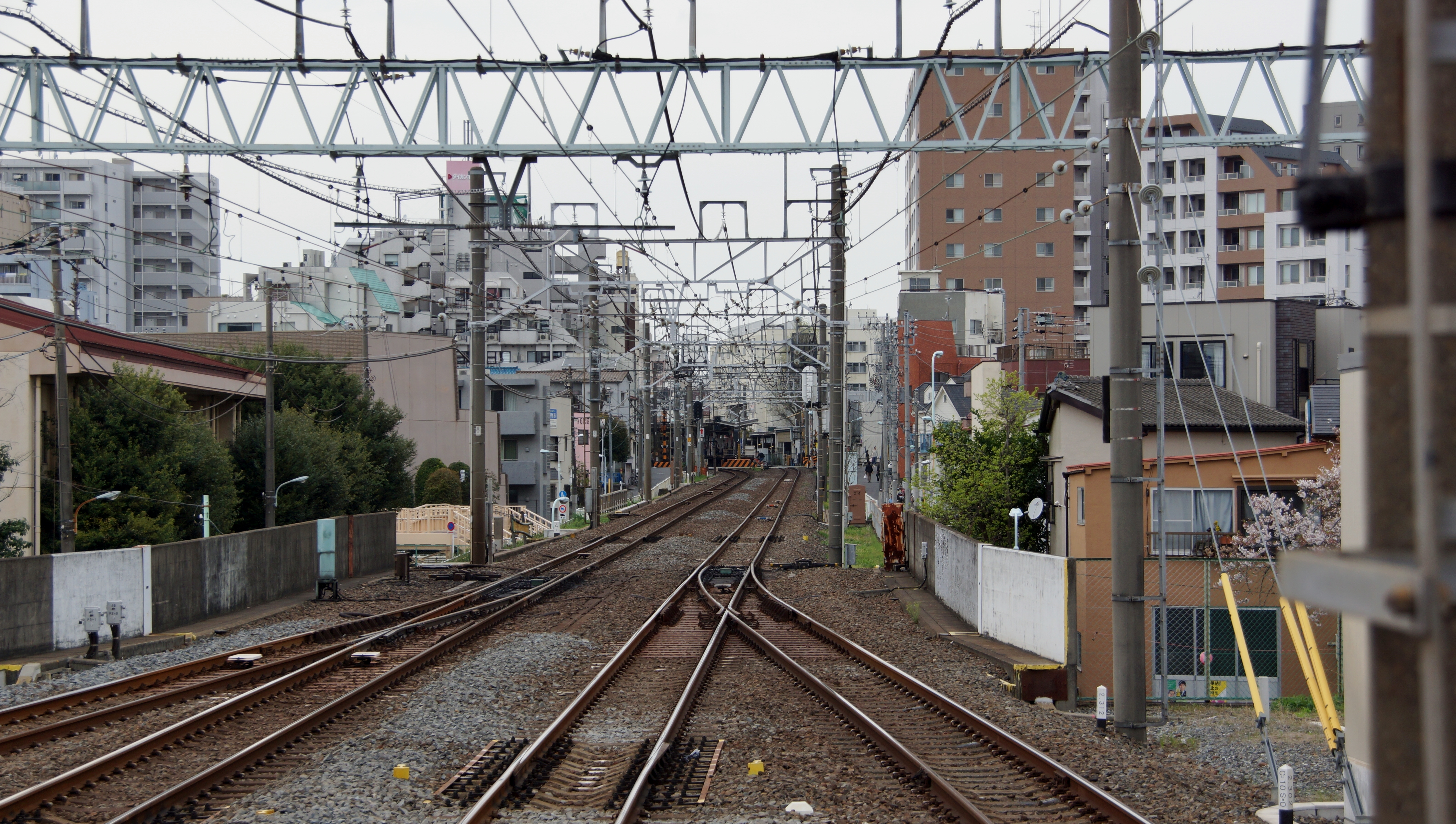 Tokiwadai Station visible from the down end of the platforms at Naka-Itabashi Station on the Tobu Tojo Line in Tokyo, Japan